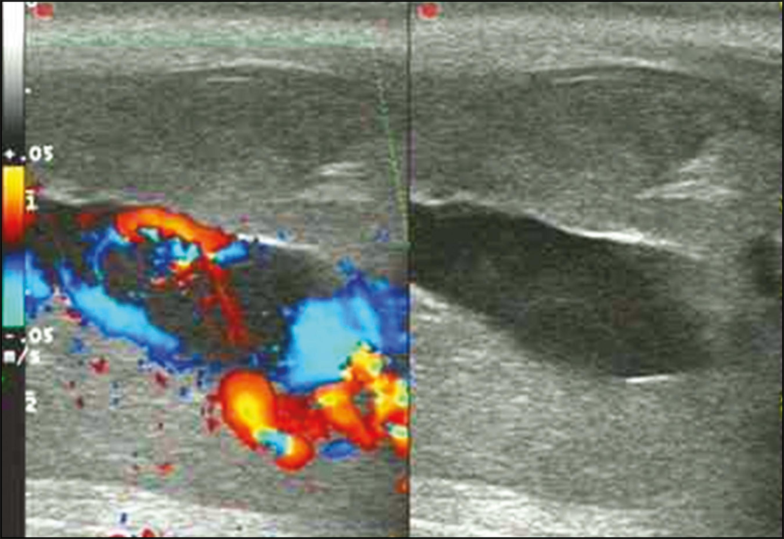 edit For context, see Penile ultrasonography, possibly in linked disease-article.